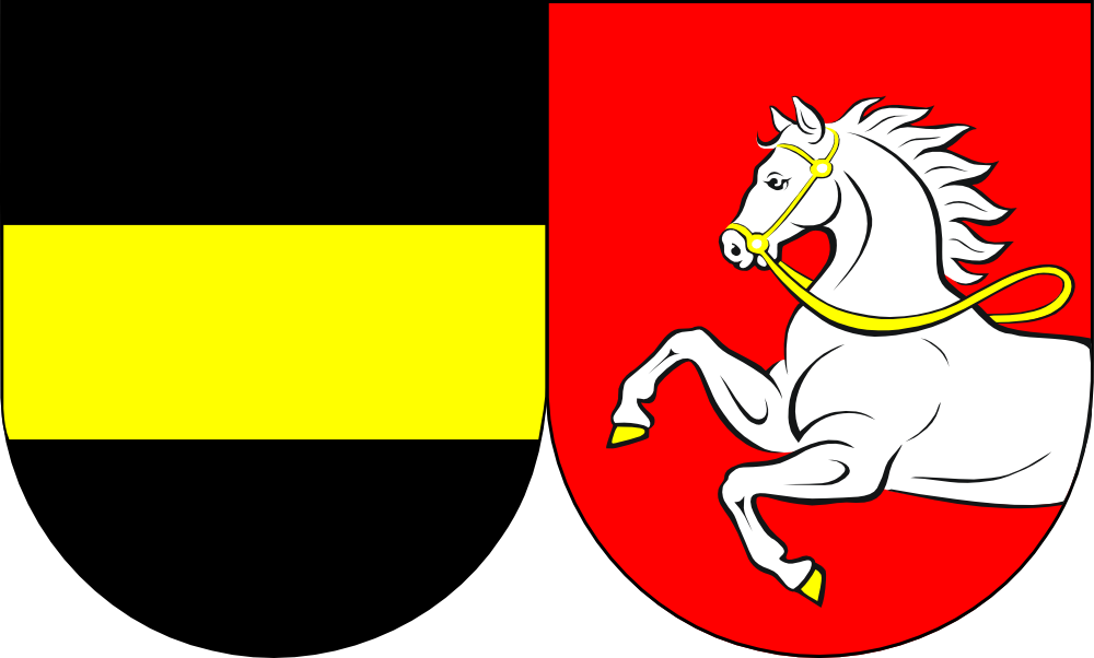 Coat of arms (shield only) of Arnošt z Pardubic, bishop of Prague (1343 - 1344), archbishop of Prague (1344 - 1364).